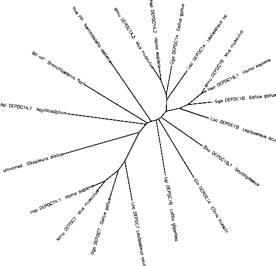 An unrooted phylogenetic tree indicating the evolutionary relationship between the DEPDC1B gene to its paralogs - DEPDC1A and DEPDC7.